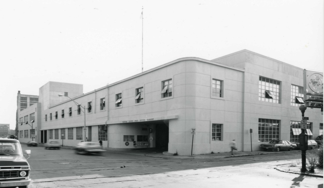 The now-demolished US Post Office Garage, Dorchester, Boston, Massachusetts.